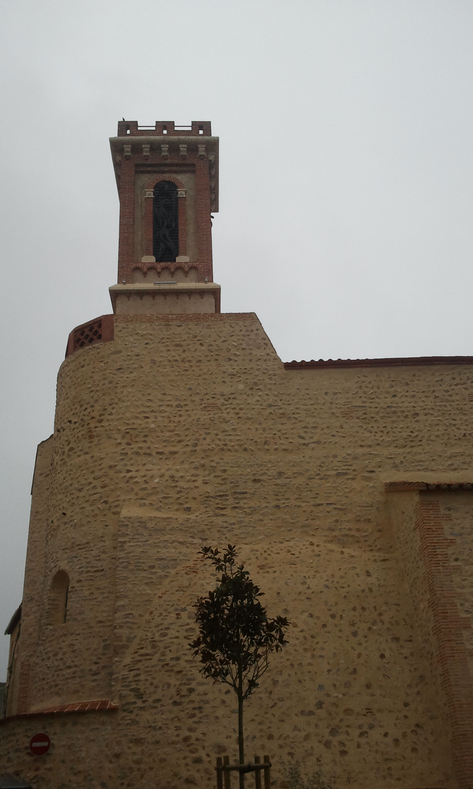 Église Saint-Julien-et-Sainte-Basilisse à Villemolaque